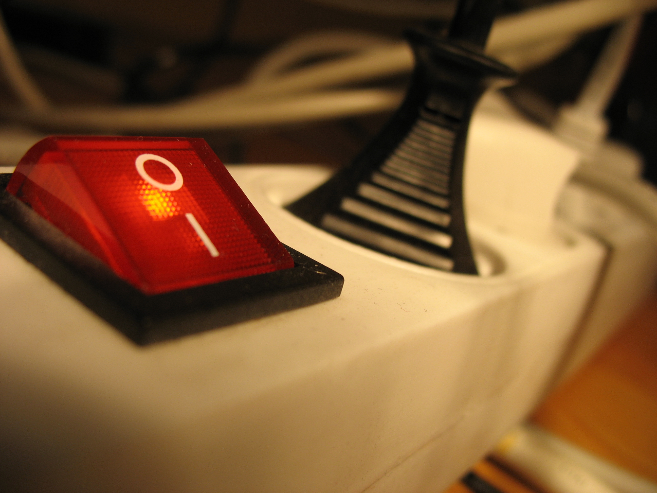 Switchable multiple socket, power strip